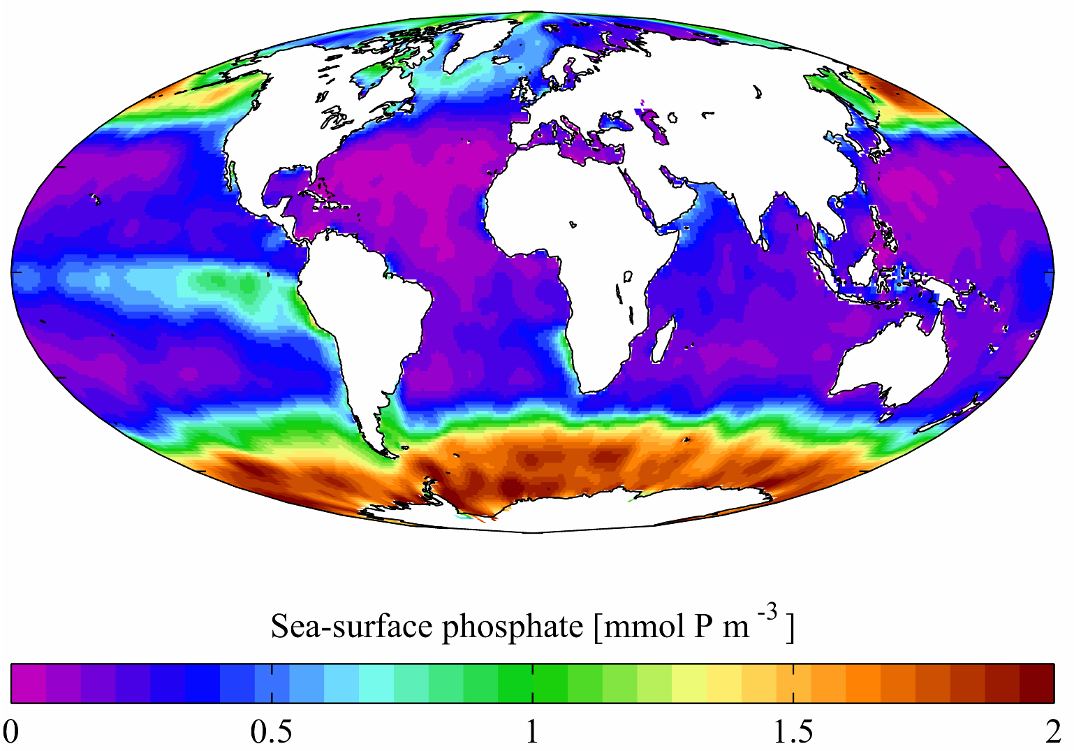 Annual mean sea surface phosphate from the World Ocean Atlas 2001. It is plotted here using a Mollweide projection (using MATLAB and the M_Map package)